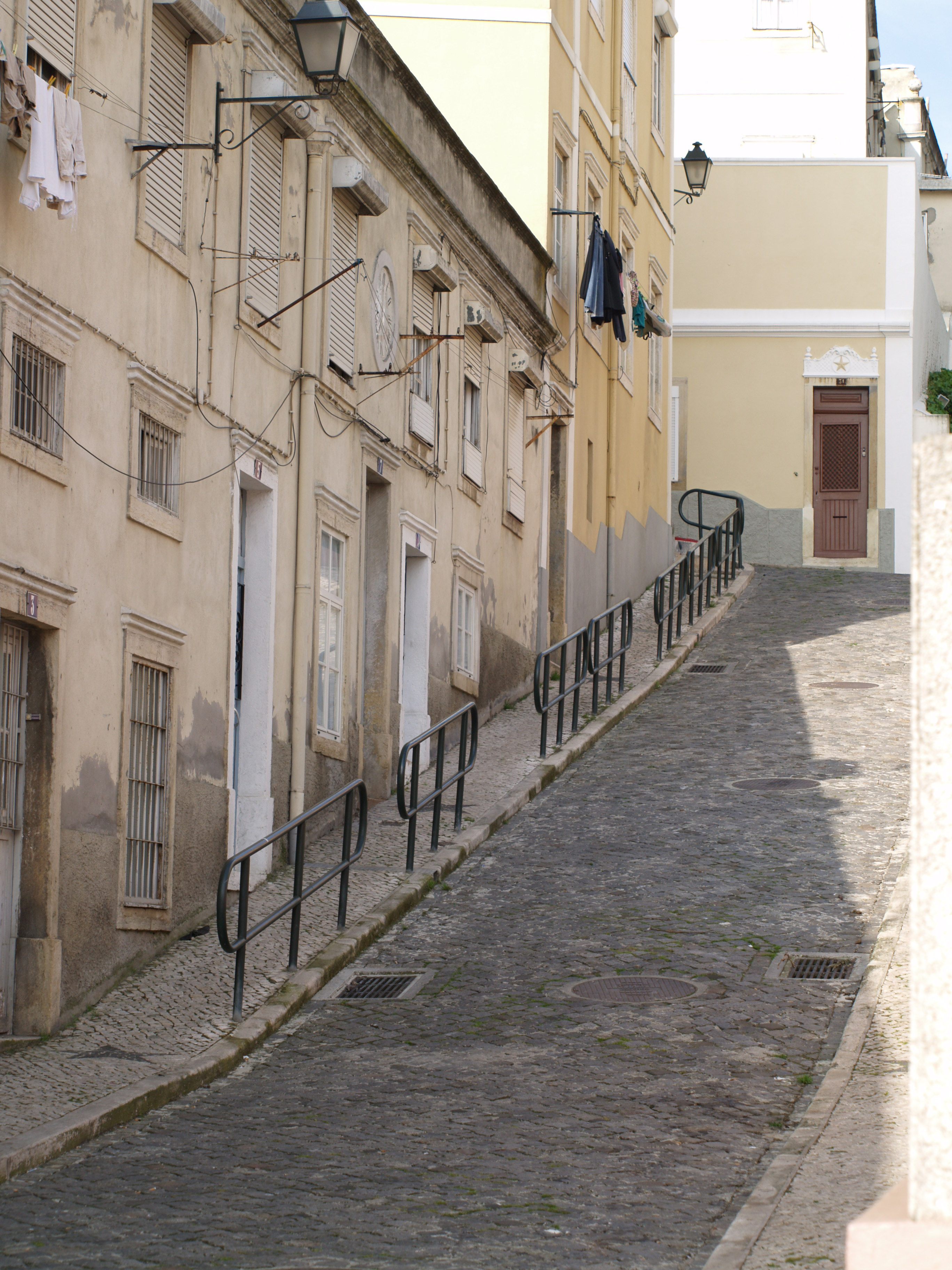 This file was uploaded for Wiki Loves Monuments in Portugal with the unique identifier 72302.